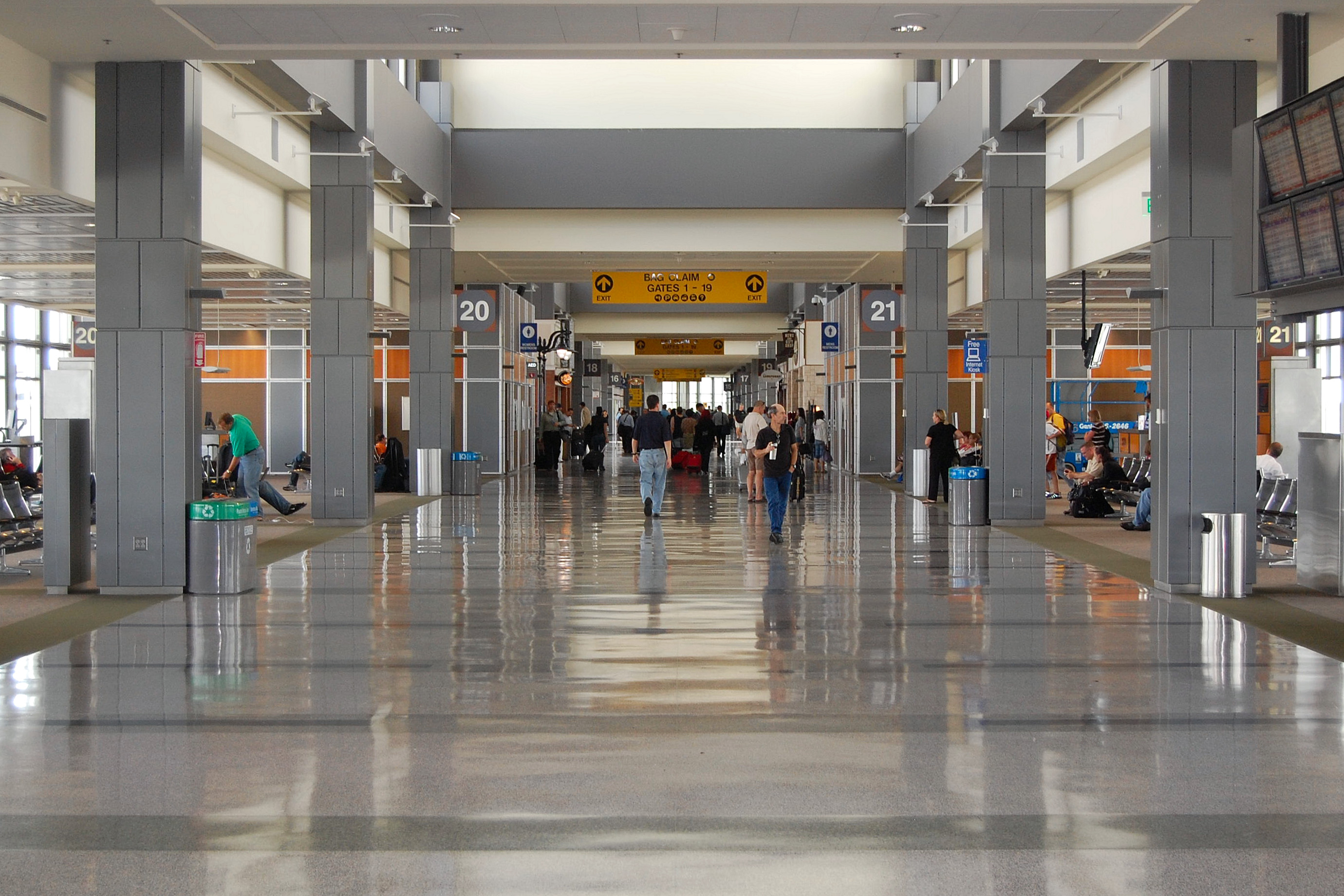 West Concourse at Austin Bergstrom International Airport